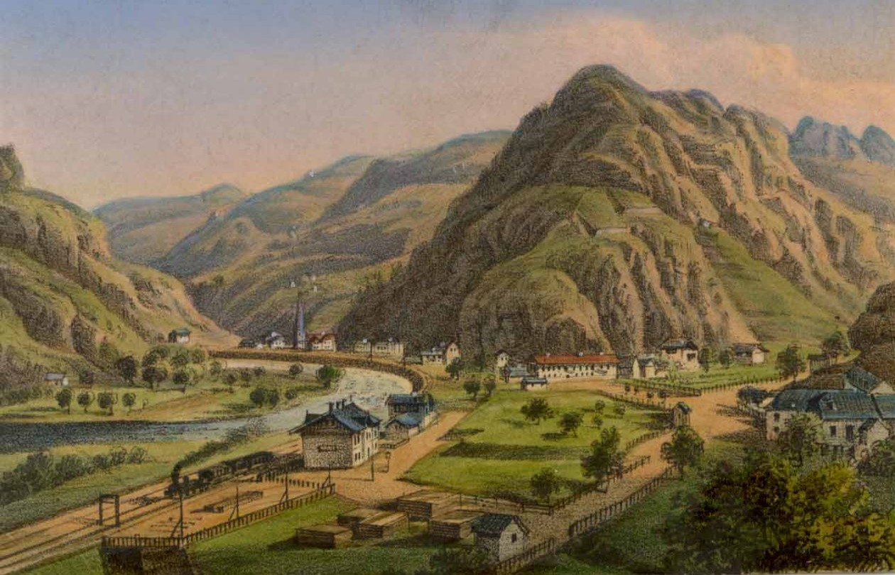 Late 19th century coloured lithograph showing the Blumau hamlet with the Brenner railway near Bozen, South Tyrol